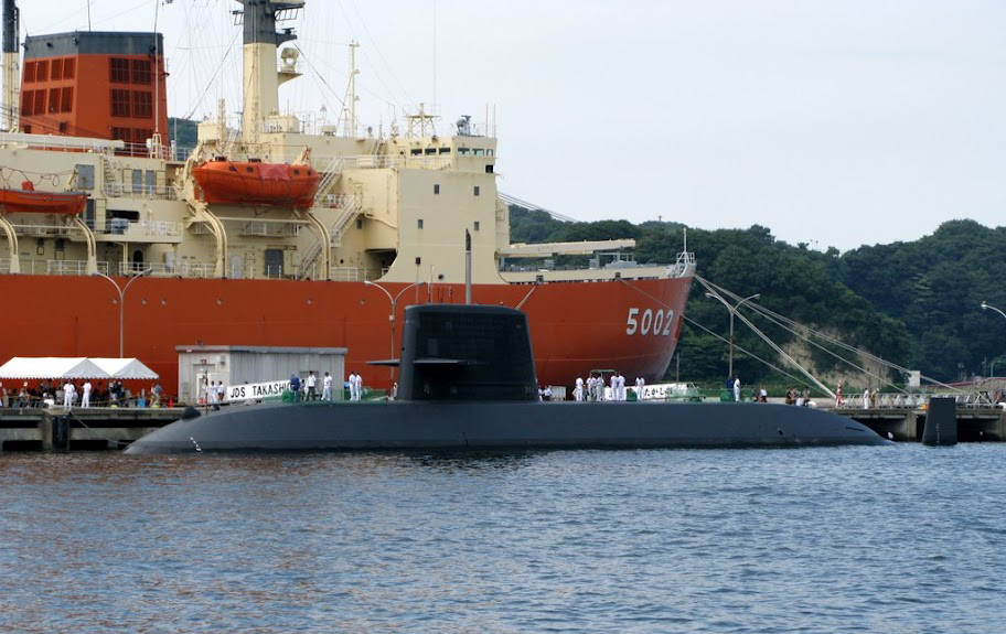 JS Takashio (SS-597) and Shirase (AGB 5002) at Yokosuka Summer Festa 2009. Canon PowerShot G9